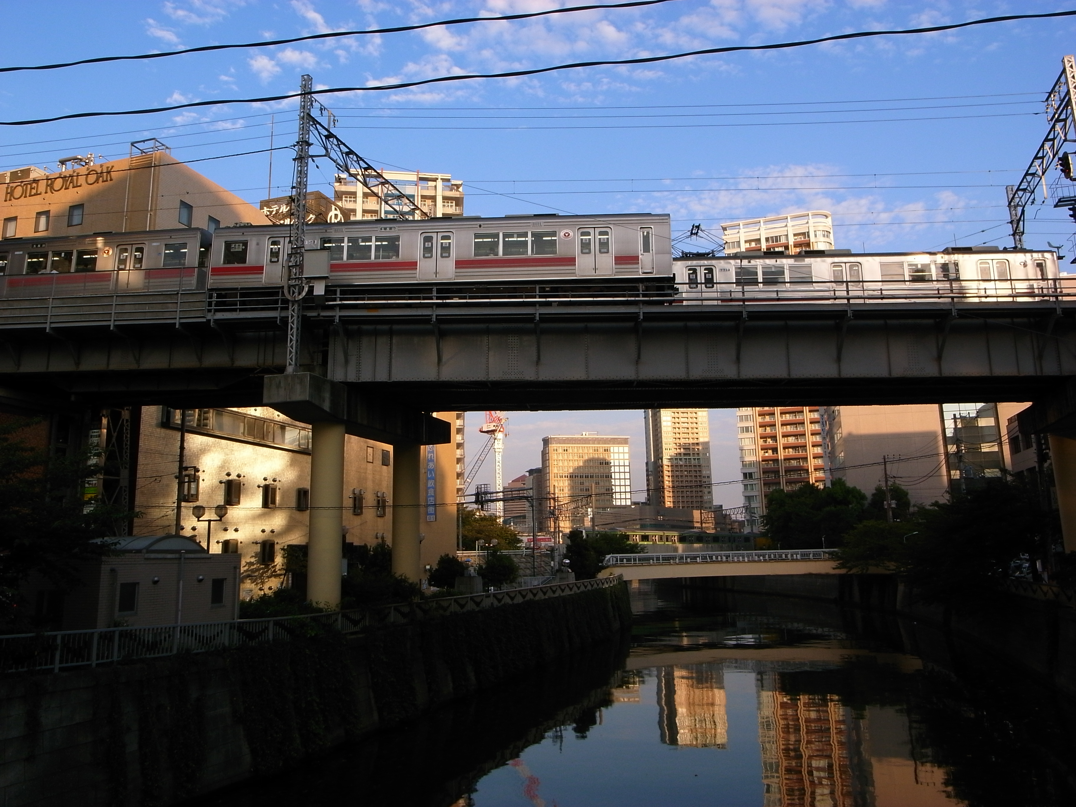 The Meguro River at Gotanda.